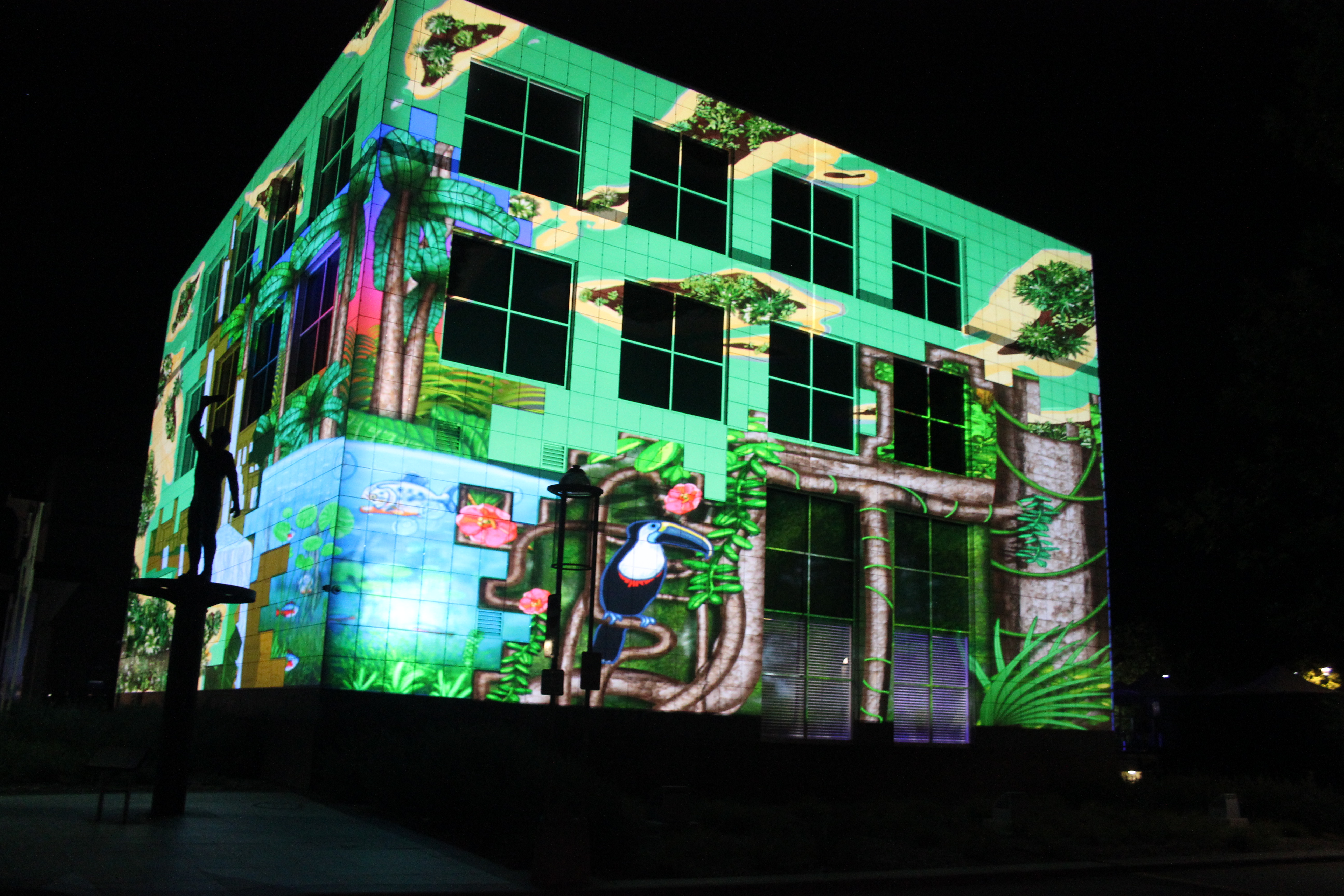 Enlighten Festival March 2014 at National Science and Technology Centre